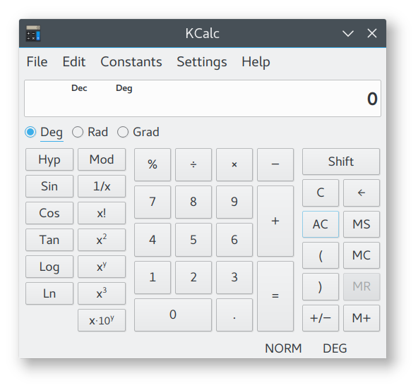 KCalc 16.12 in Science mode